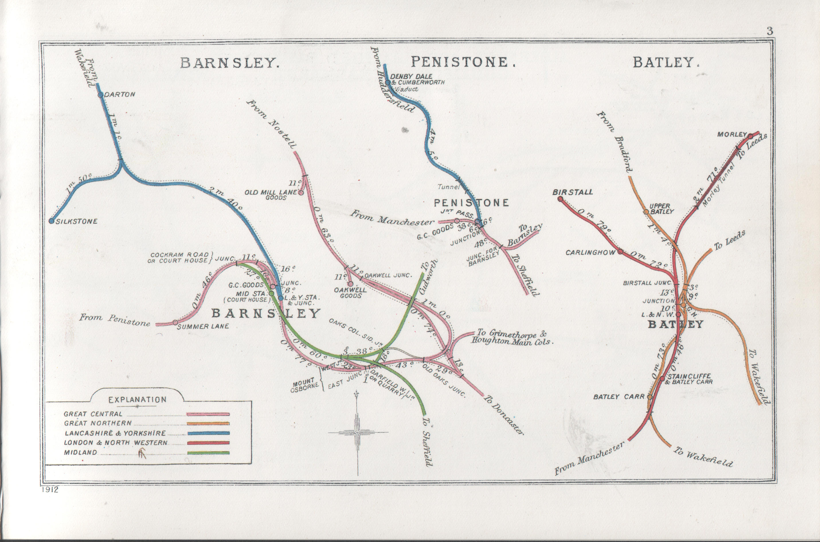 Pre Grouping railway junction around Barnsley, Penistone, Batley